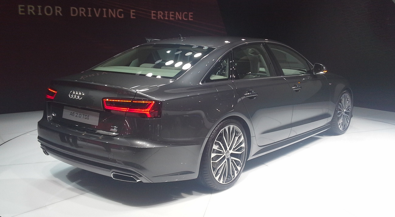 Audi A6 C7 facelift photographed at the Mondial de l'Automobile de Paris 2014 in Paris, France